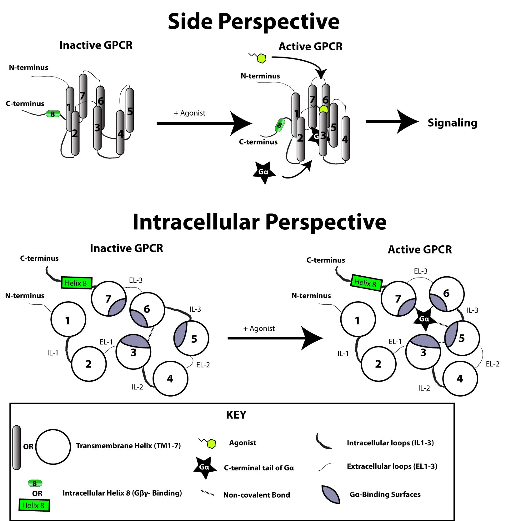 Cartoon of GPCR Conformational Activation. Ligand binding disrupts an ionic lock between the E/DRY motif of TM-3 and acidic residues of TM-6. As a result the GPCR reorganizes to allow activation of G-alpha proteins. The side perspective is a view from above and to the side of the GPCR as it is set in the plasma membrane (the membrane lipids have been omitted for clarity). The intracellular perspective shows the view looking up at the plasma membrane from inside the cell. Based on information found in Mol. Endocrinol. 2010 24:261-274 Abbreviations, etc: GPCR domains: IL-1 to IL-3= Intracellular loops 1-3 EL-1 to EL-3= Extracellular loops 1-3 Other: G-alpha= Alpha subunit of a heterotrimeric G-protein G-beta/gamma= G-beta/gamma heterodimer of heterotrimeric G-protein The figure is based on information found in the review article "The Year In G Protein-Coupled Receptor Research" Molecular Endocrinology 24 (1): 261-274. (2010)